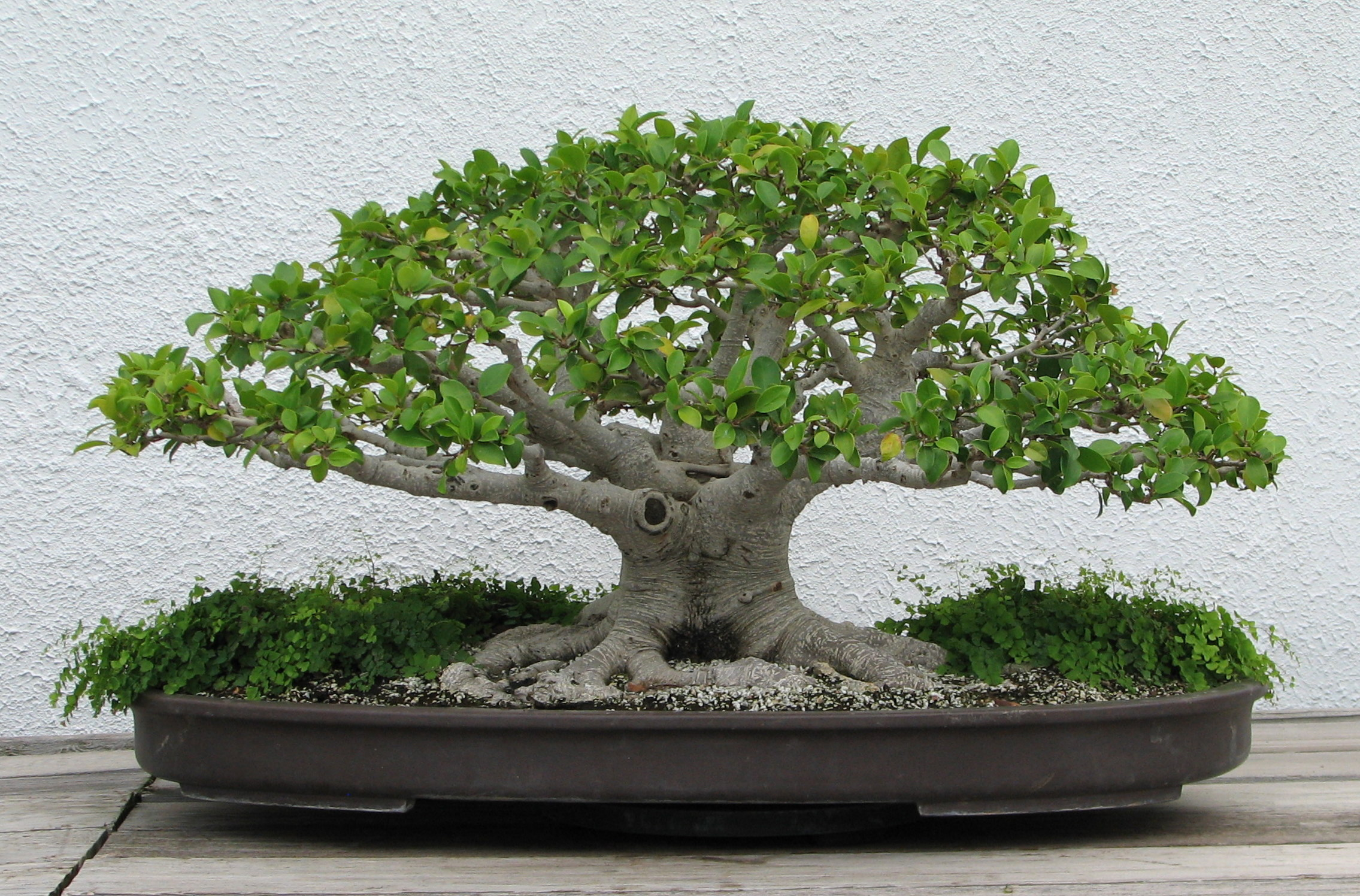 A Chinese Banyan (Ficus microcarpa 'Retusa') bonsai on display at the National Bonsai & Penjing Museum at the United States National Arboretum. According to the tree's display placard, it has been in training since 1971. It was donated by Mike Uyeno.